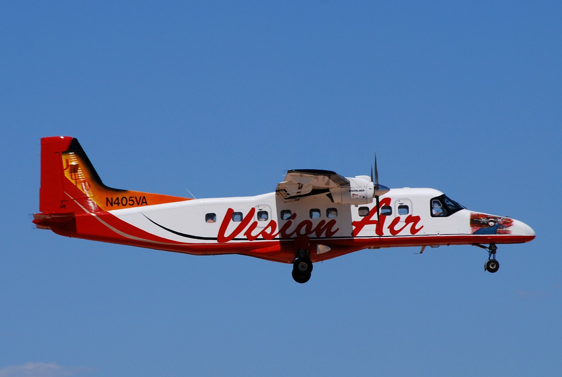 North Las Vegas Airport (IATA: VGT, ICAO: KVGT, FAA LID: VGT) 8-4-2010 Photo: TDelCoro